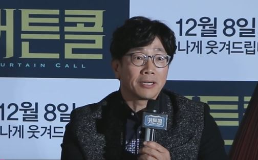 Actor Park Chulmin at the press conference of the movie "Curtain Call"